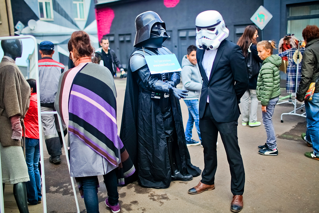 Flacon Design Factory